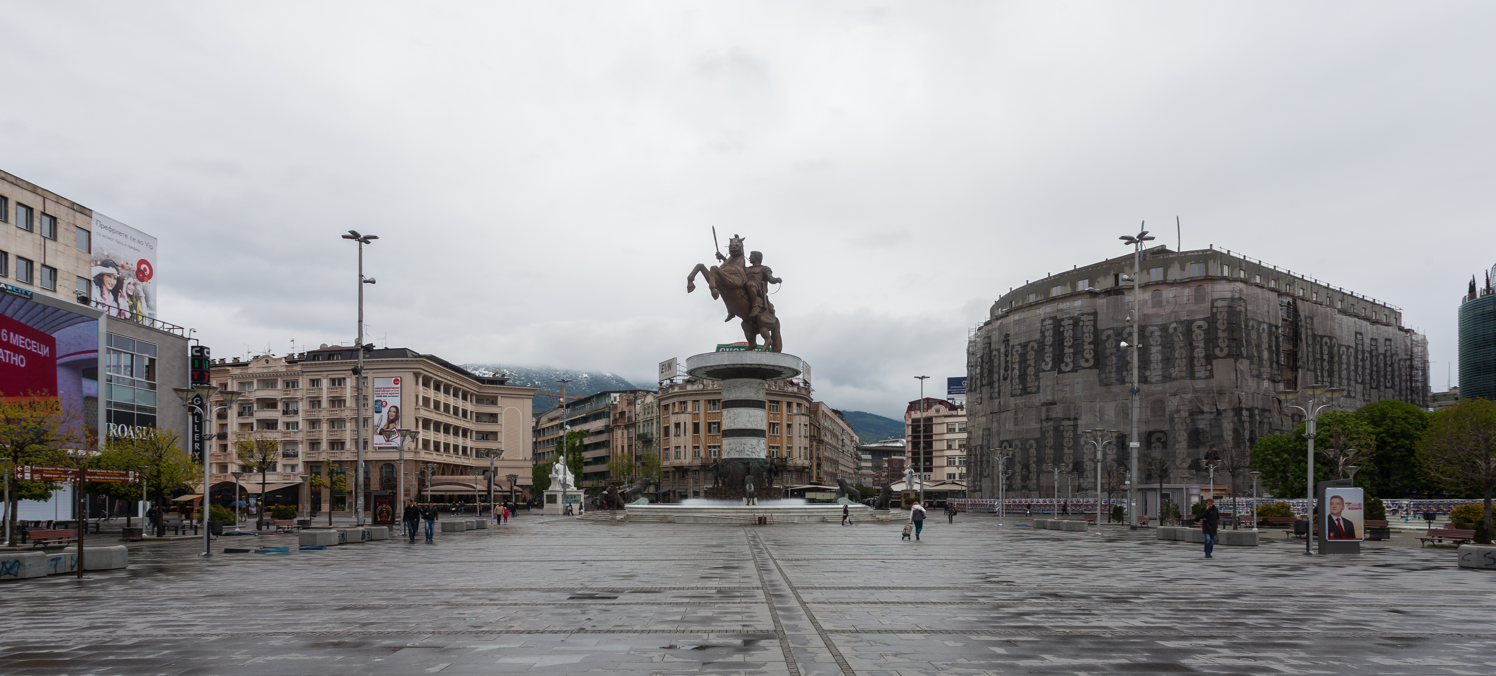 Macedonia Square, Skopje, Republic of Macedonia